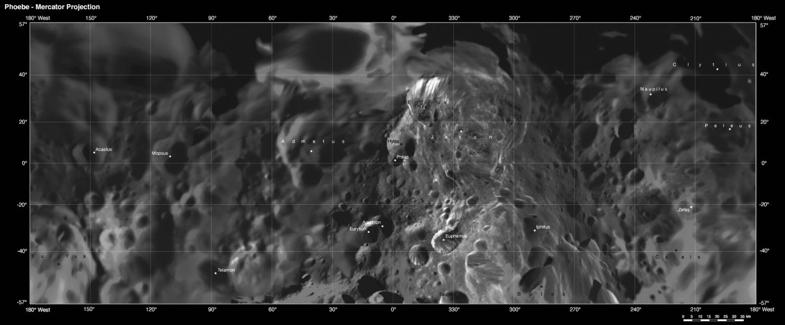 map of Phoebe, modest scale